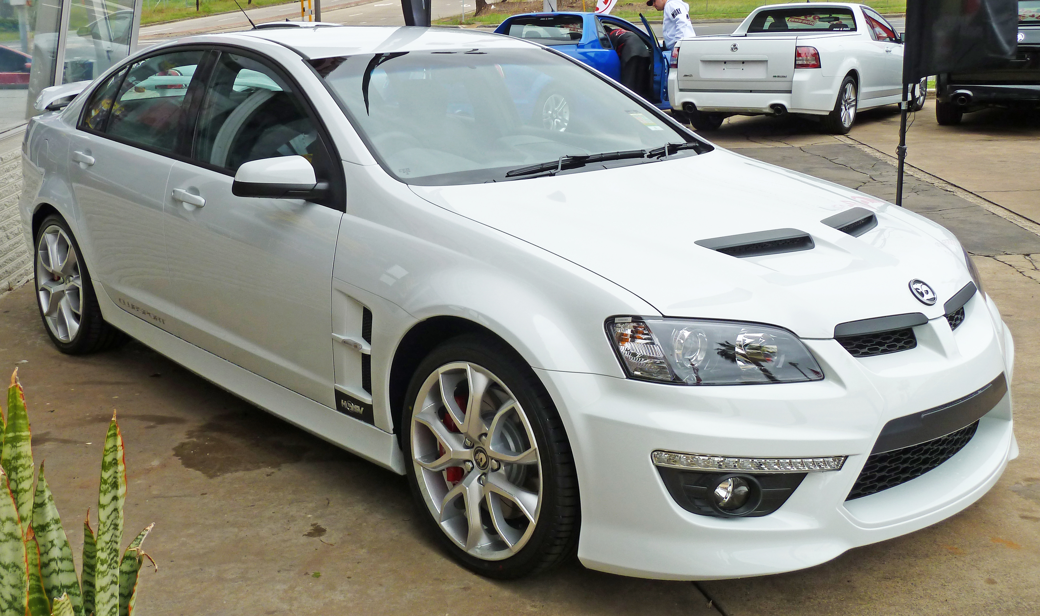 2010 HSV Clubsport (E Series 3 MY11) R8 sedan. Photographed at Suttons Holden, Chullora, New South Wales, Australia.